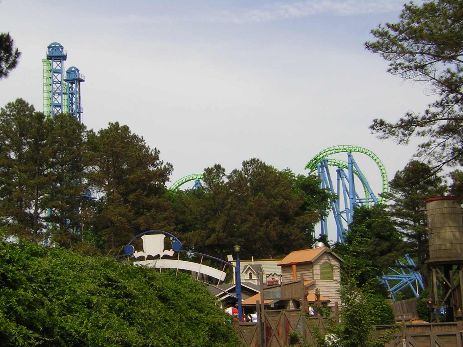 Déjà Vu, inverted shuttle roller coaster at Six Flags Over Georgia, USA. 2001 - 2007